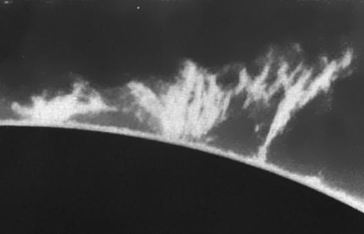 1909 photograph of the sun. Caption: "Solar Prominences 85,000 Miles High (Photographed with the Snow Telescope and five-foot spectroheliograph, Aug. 21, 1909)"